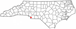 Category:North Carolina Dot Maps